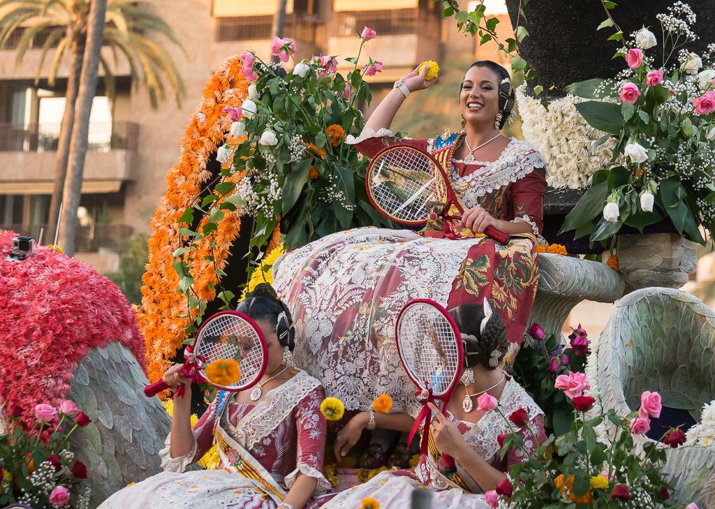 Batalla de Flors (Battle of the Flowers) during the Fira de Juliol (July Festival), Valencia.